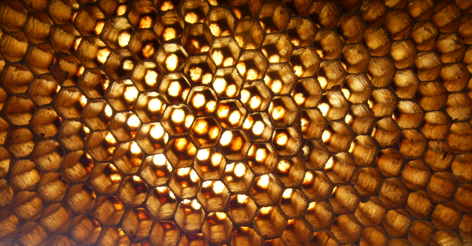 Apis florea nest closeup by Sean Hoyland